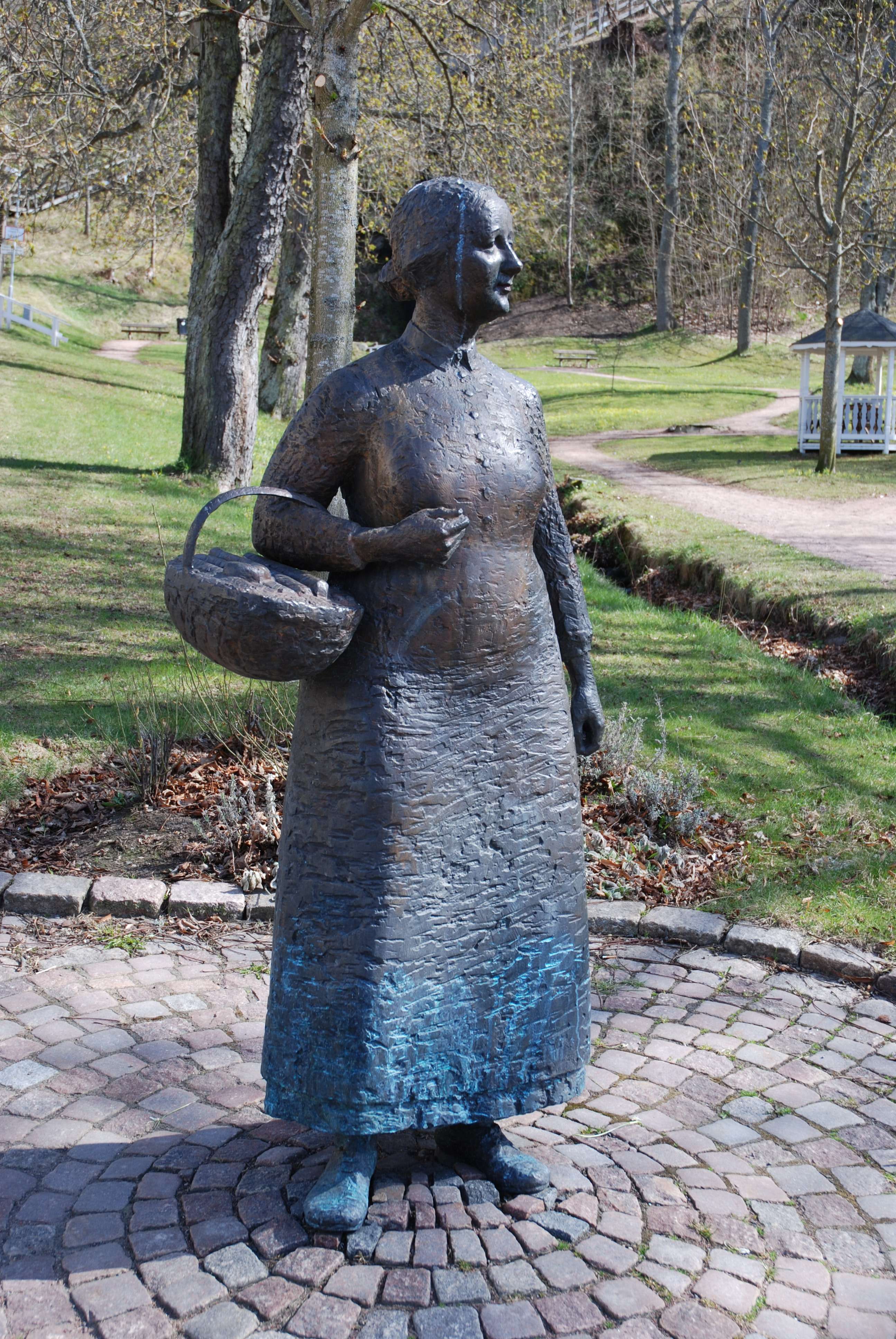 Lena Lervik´s Amalia Eriksson, bronze, 1997, Södra Parken in Gränna, Sweden